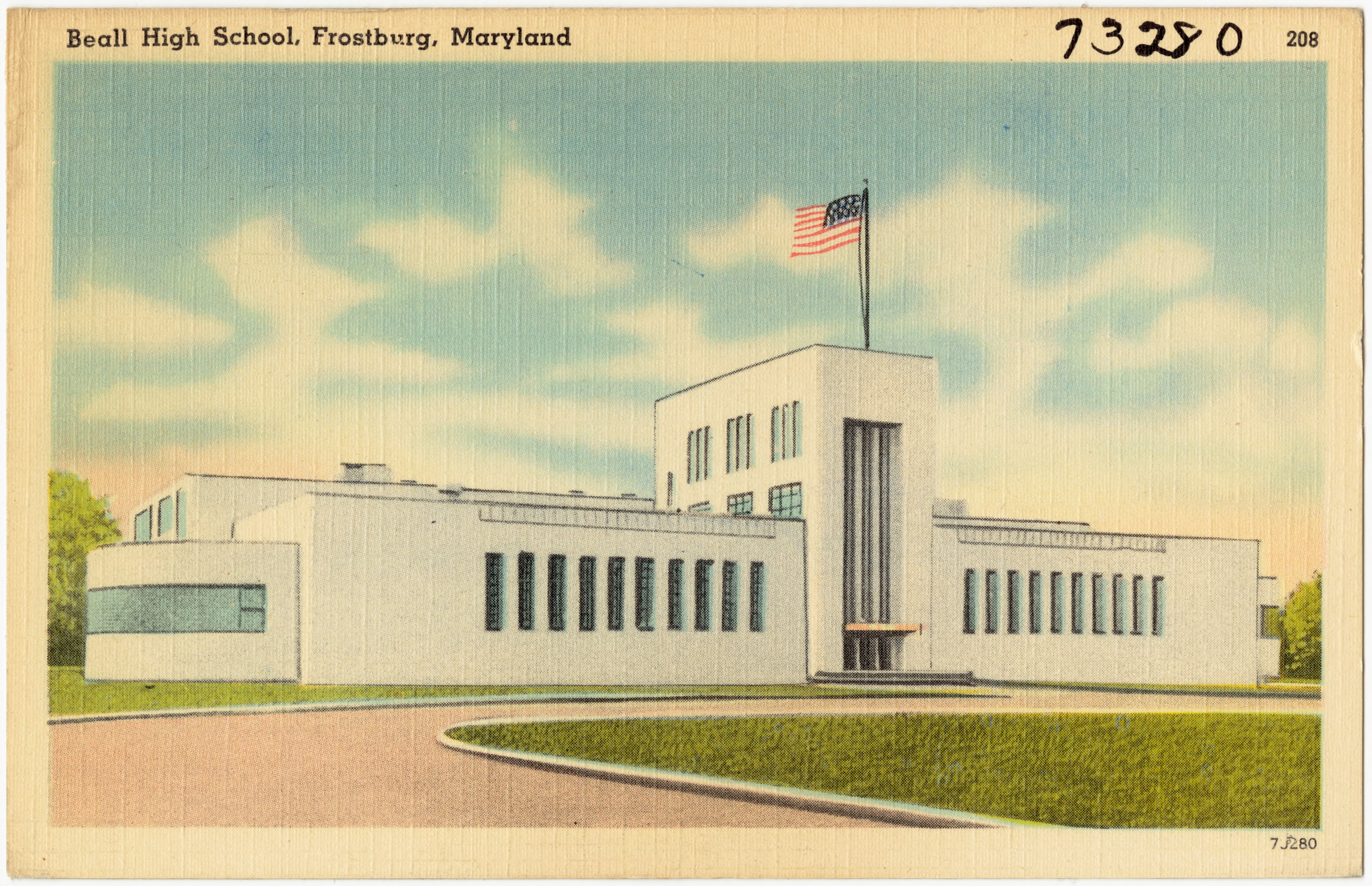 The former Beall High School, circa 1930—1945, which was located in Frostburg, Maryland.